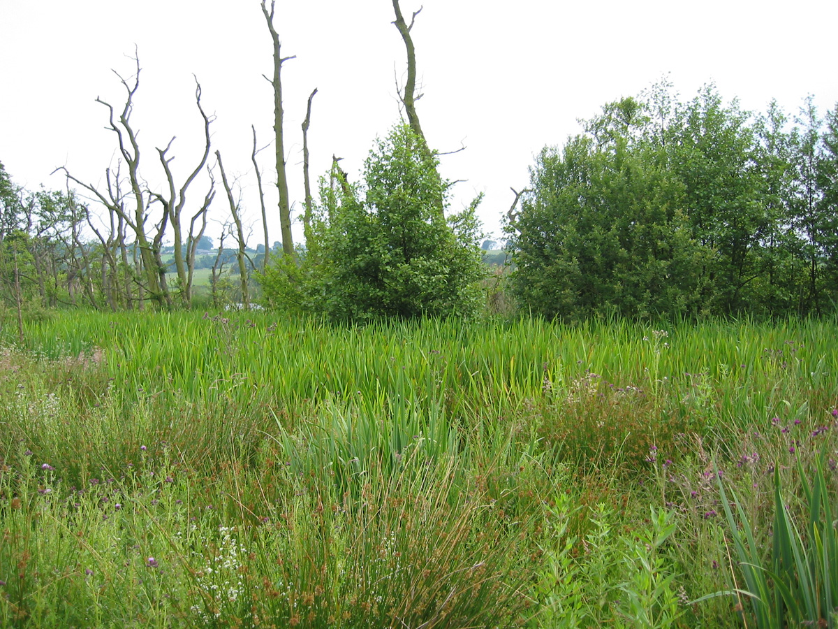 Reed beds at the north of Quoisley Big Mere, near Marbury, Cheshire